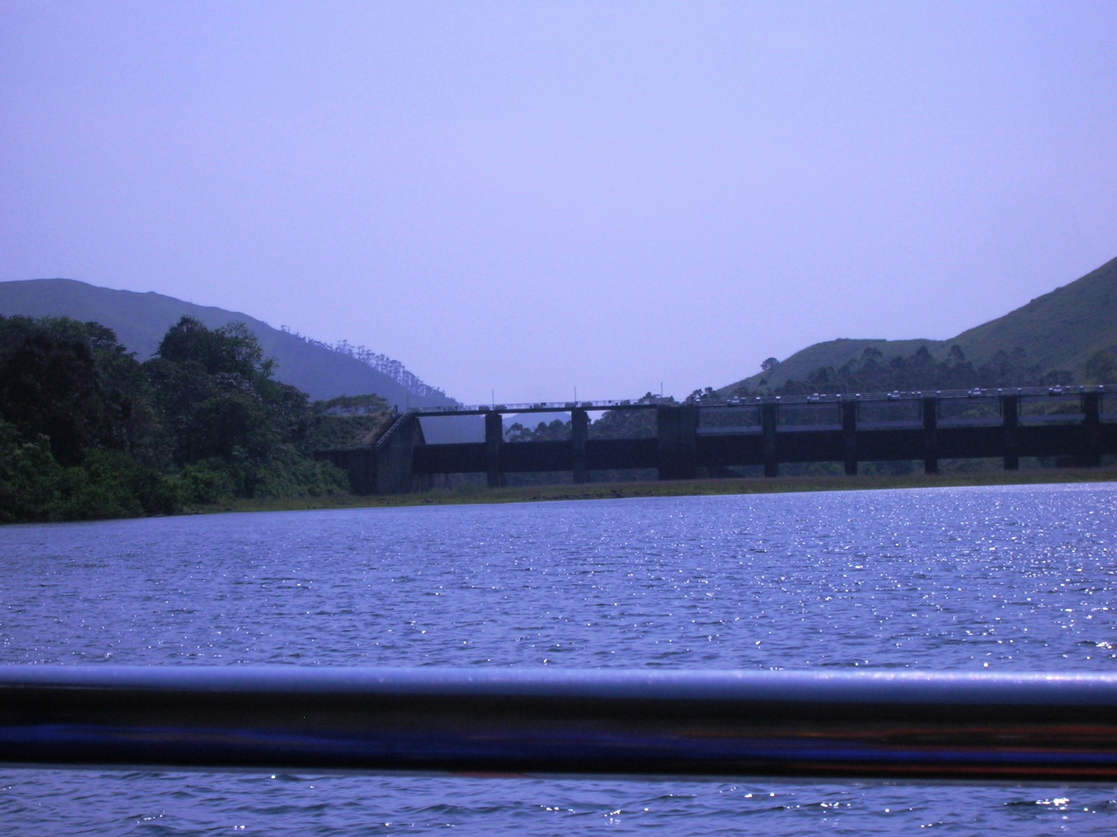 Mullaperiyar dam -from inside